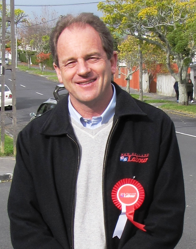 David Shearer, MP for Mount Albert in New Zealand. This is a crop of the photo at File:DavidShearer3.JPG, which was taken by me and placed in the public domain.